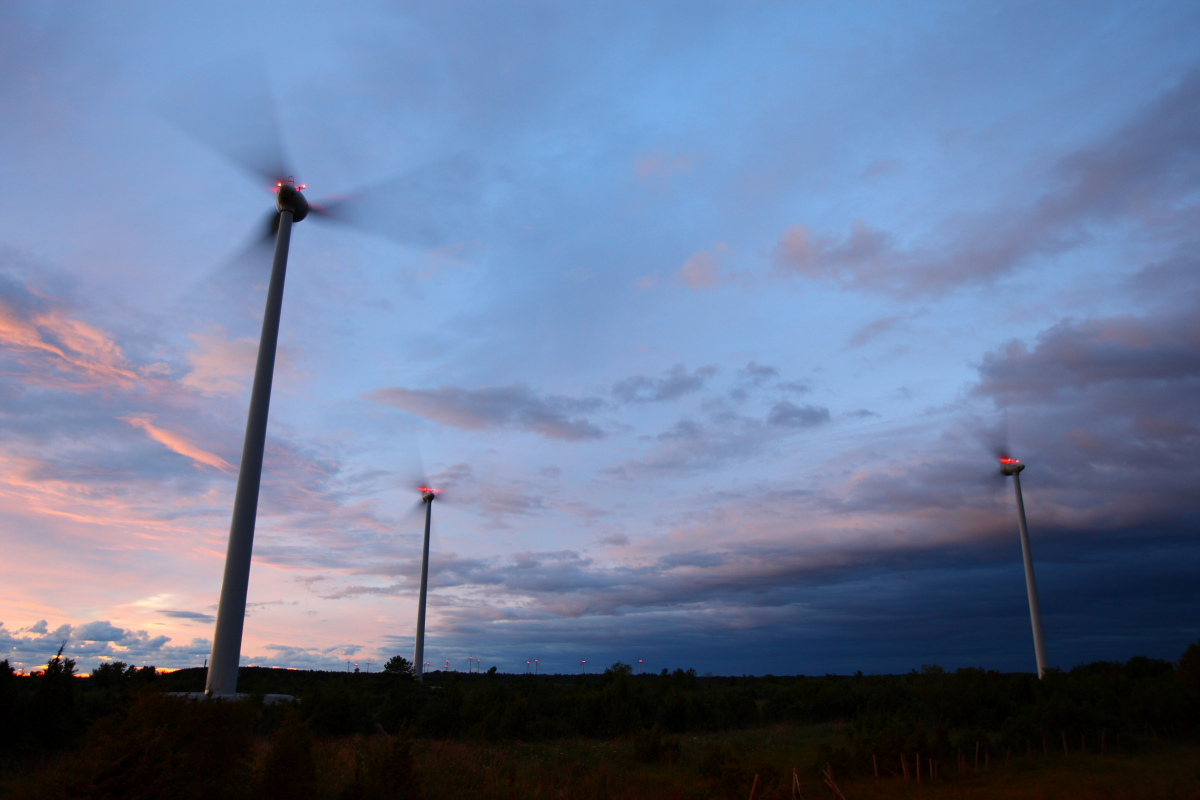 Wind farm of Virtsu (Virtsu II)